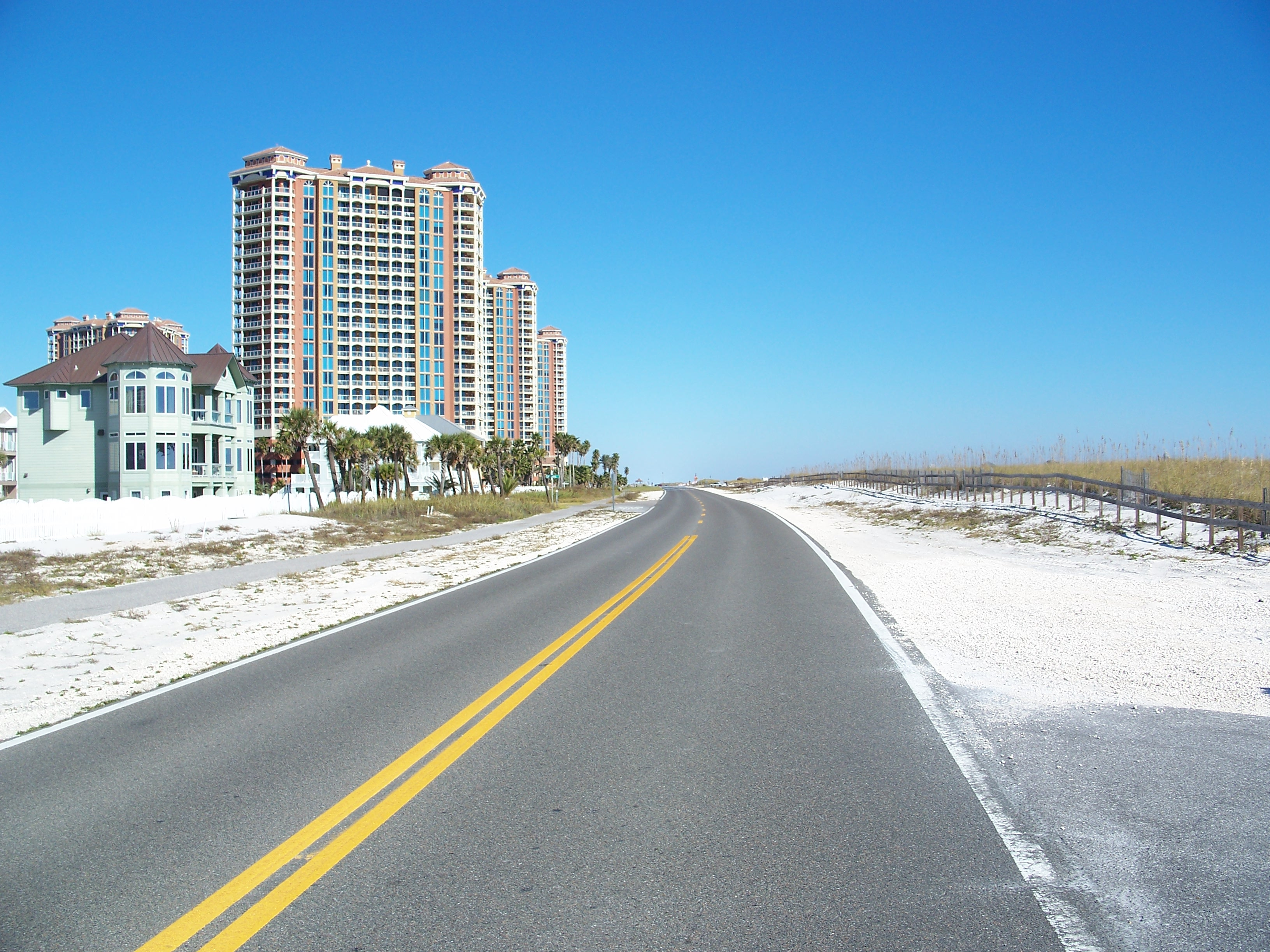 Pensacola Beach, Florida: SR 399, looking east